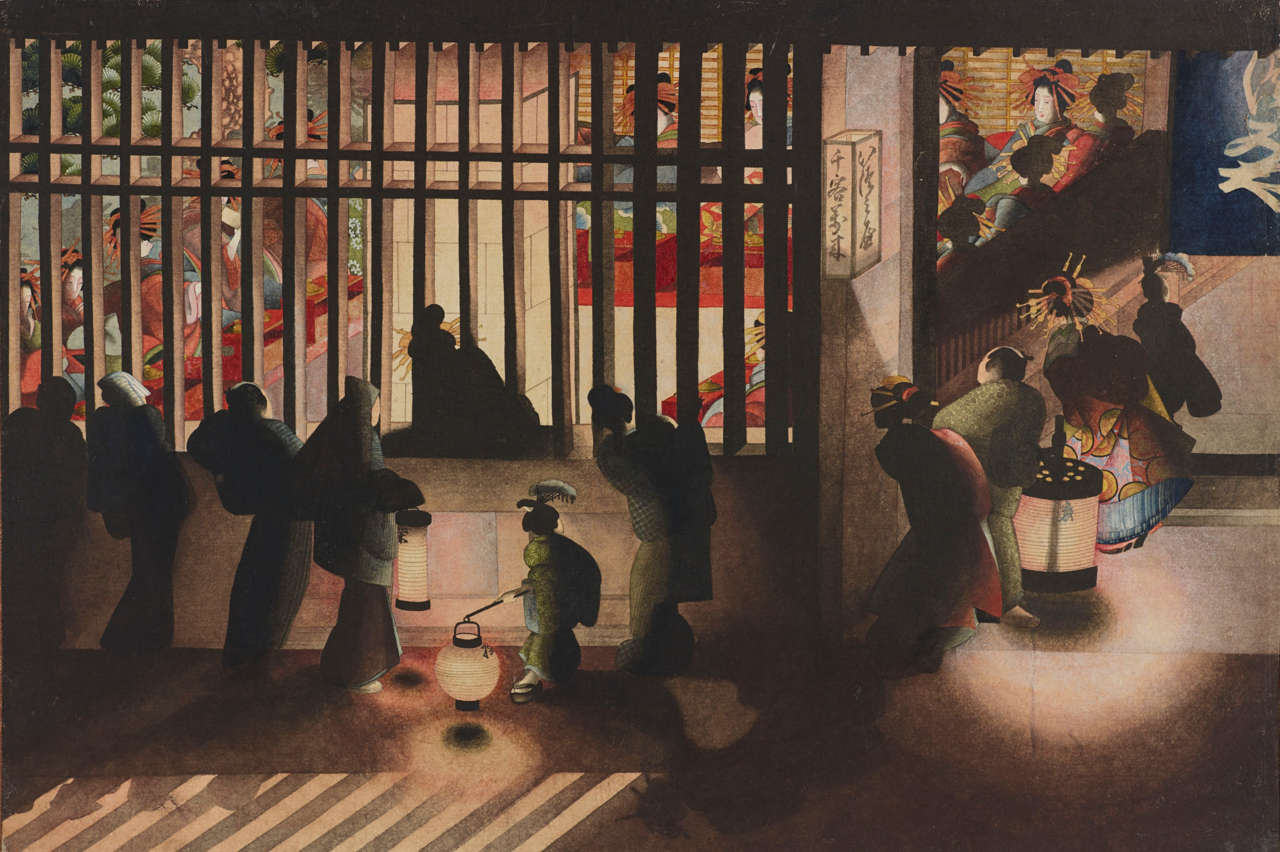 Yoshiwara Kōshisakinozu (Yoshiwara Night Scene) ukiyo-e by Katsushika Ōi 中文（台灣）: 葛適應為所繪的《吉原格子先之圖》